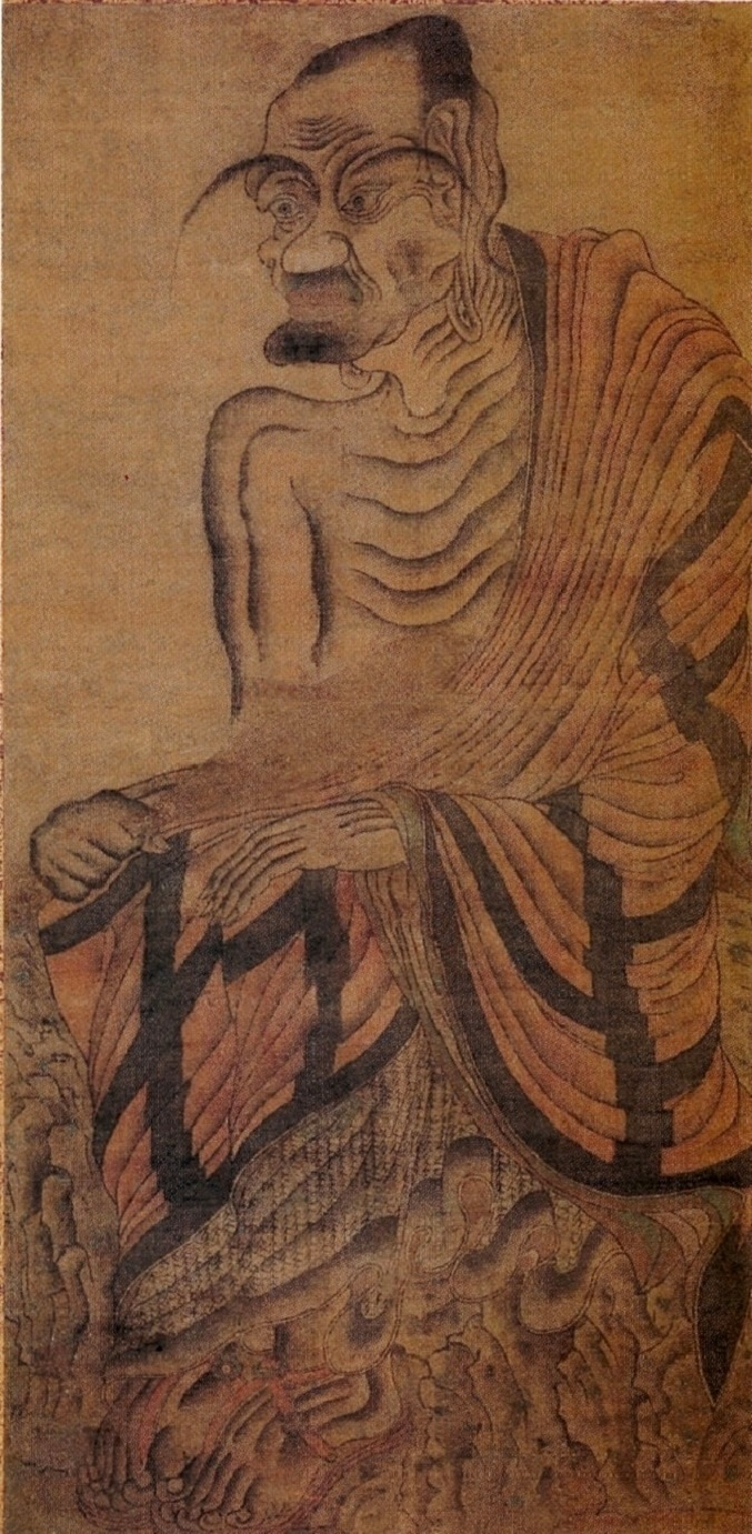 Guan Xu. Arhat. 11-12th century, Imperial Household Collection, National Museum, Tokyo.